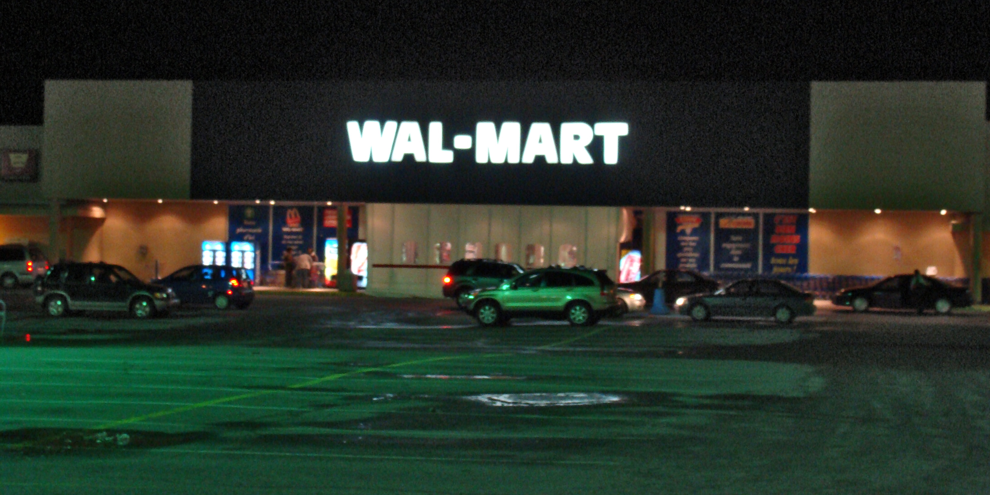 Chicoutimi, Saguenay, Quebec Wal-Mart, in a former Woolco building